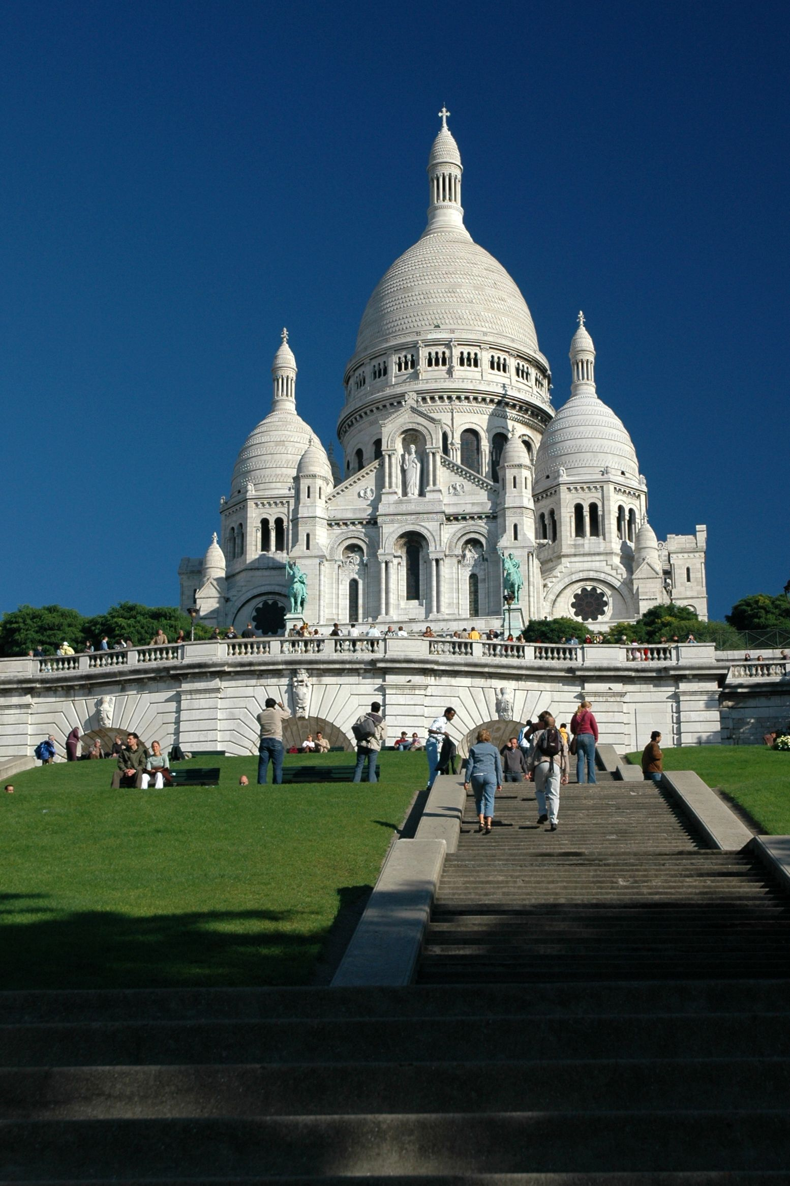 The Basilica of the Sacré Cœur